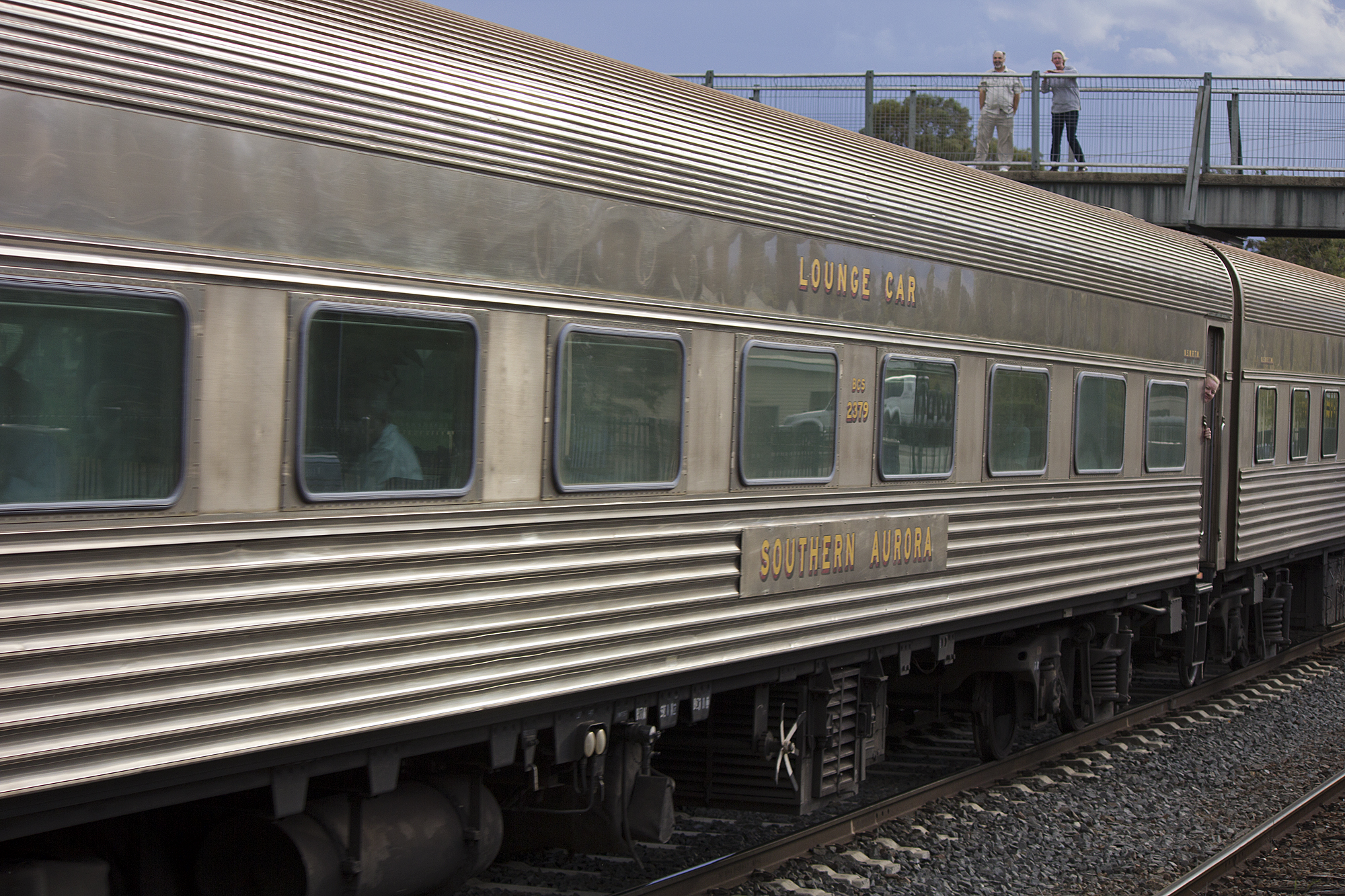 Southern Aurora passing Wagga Wagga Railway Station in Wagga Wagga, New South Wales.